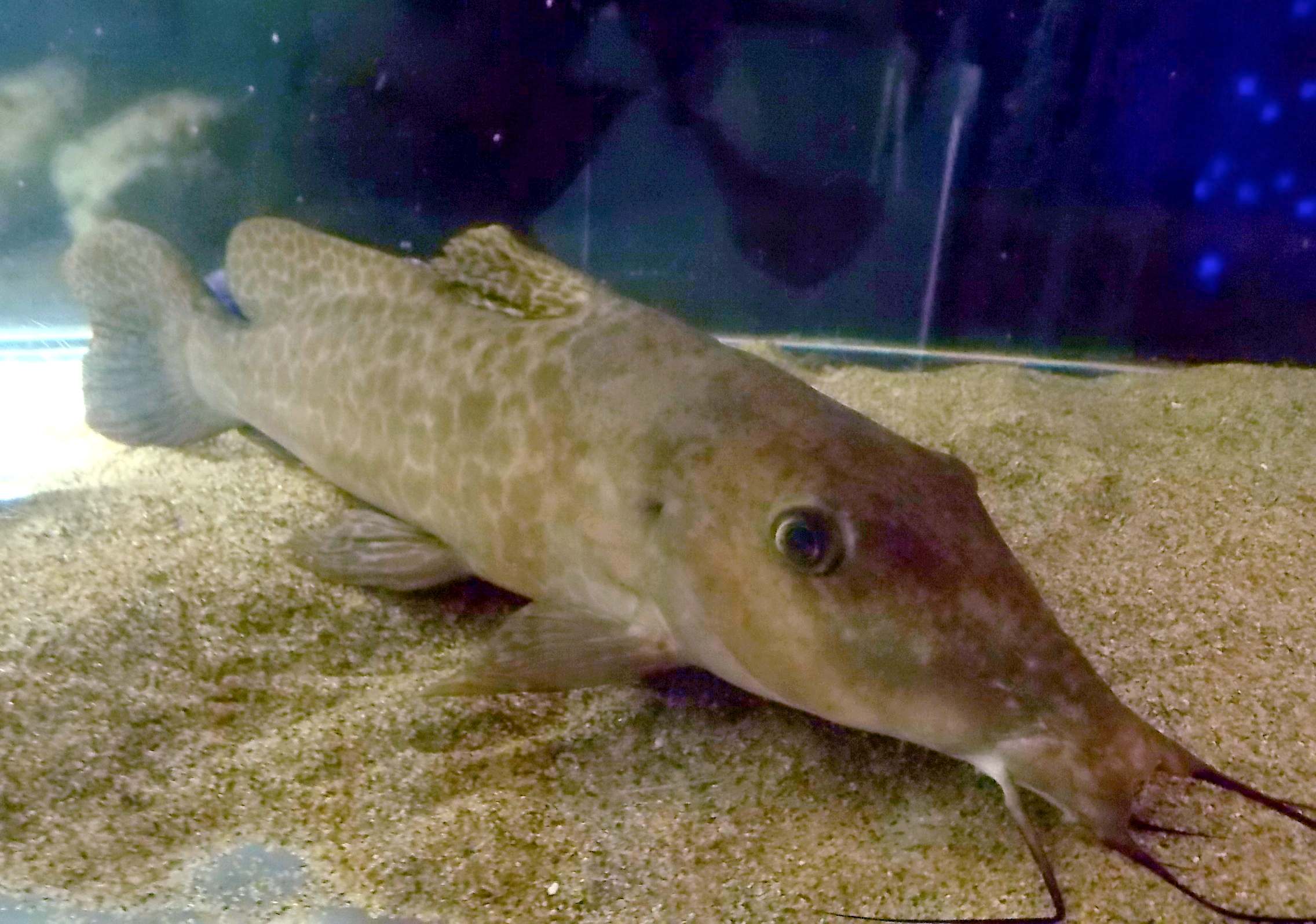 Giraffe Catfish (Auchenoglanis occidentalis) at the Tokyo Tower Aquarium (Tokyo).